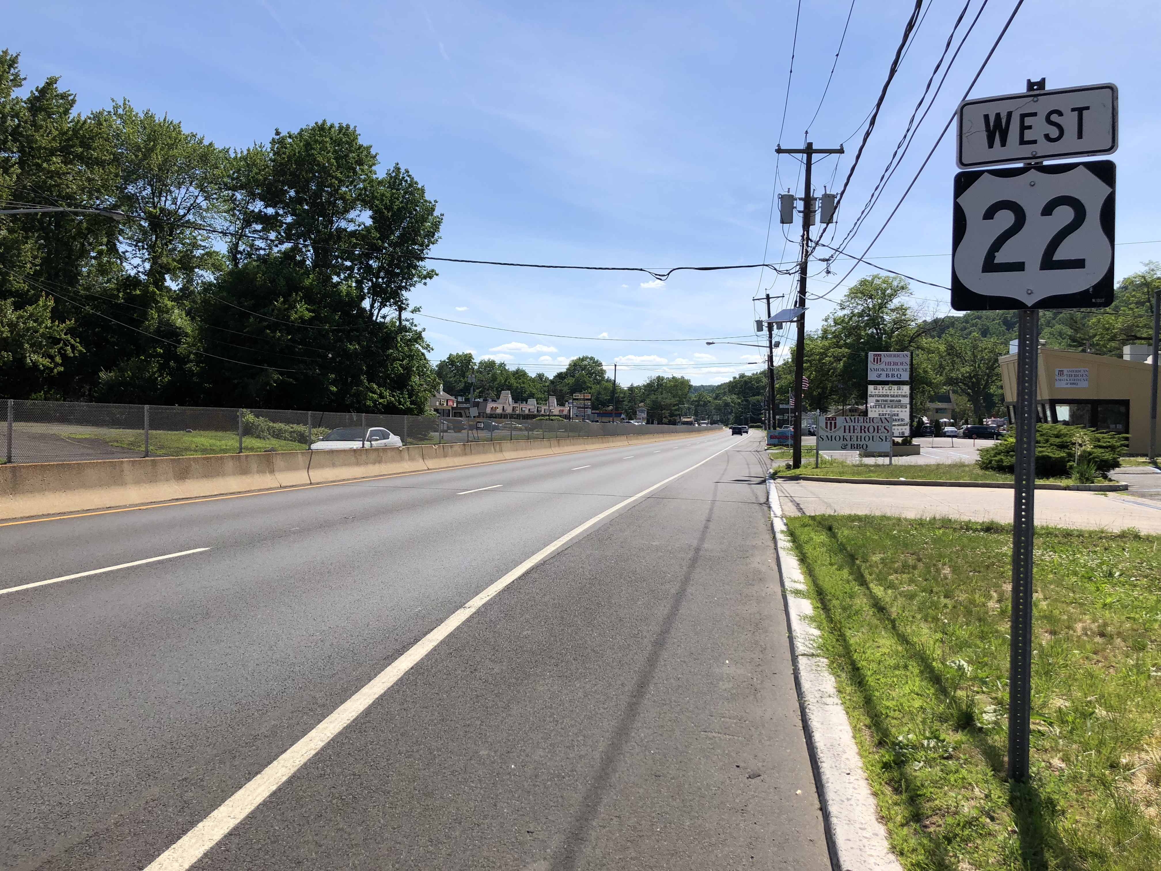 View west along U.S. Route 22 just west of Glenside Avenue in Scotch Plains Township, Union County, New Jersey